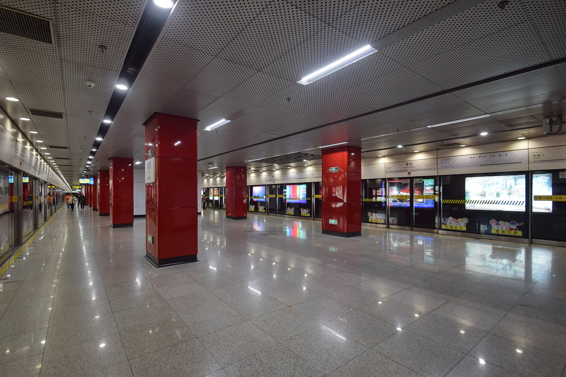 Line 10 Platform of Yuyuan Garden Station, Shanghai Metro